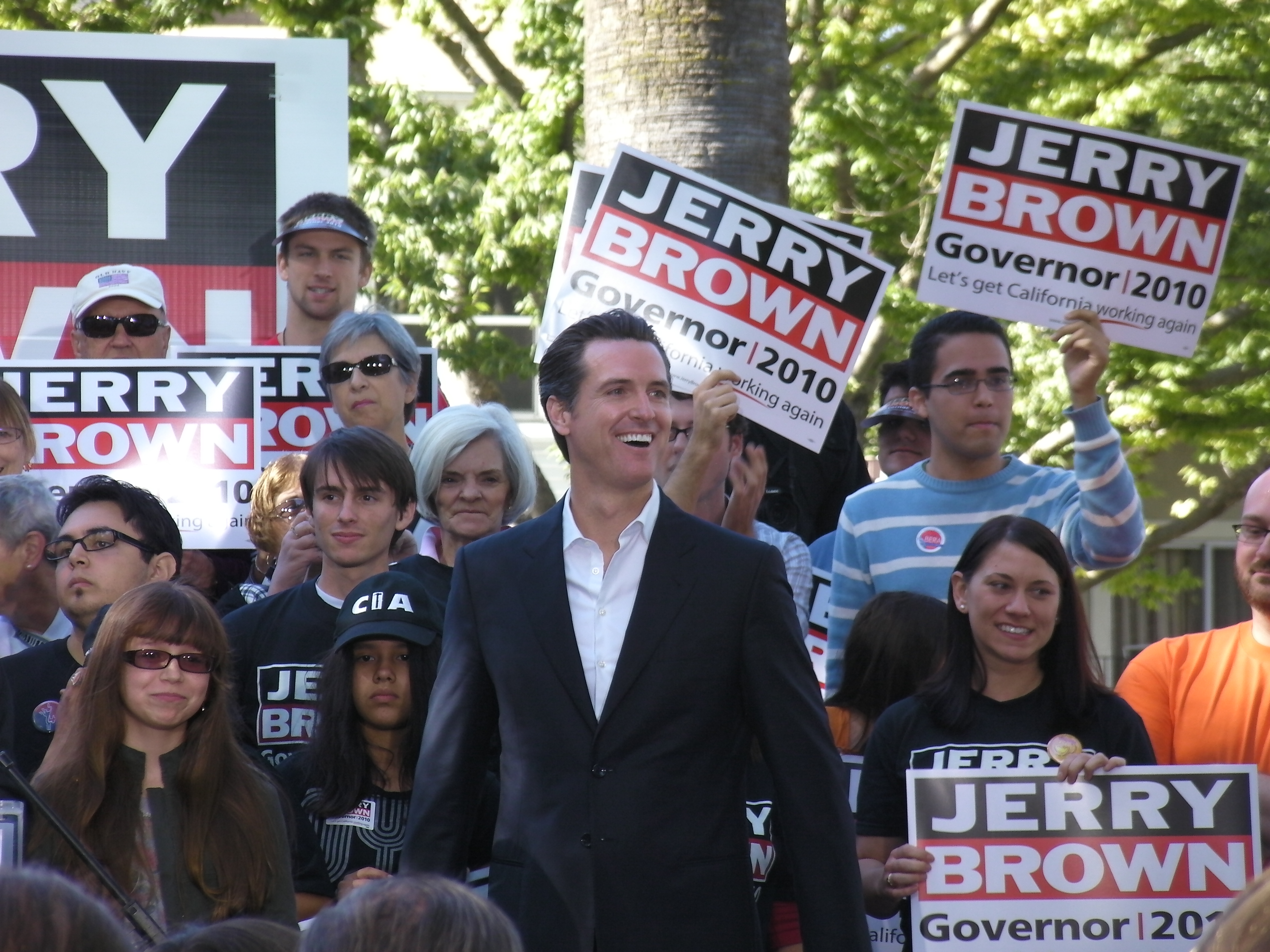 Lieutenant Governor Gavin Newsom at a 2010 Jerry brown rally.